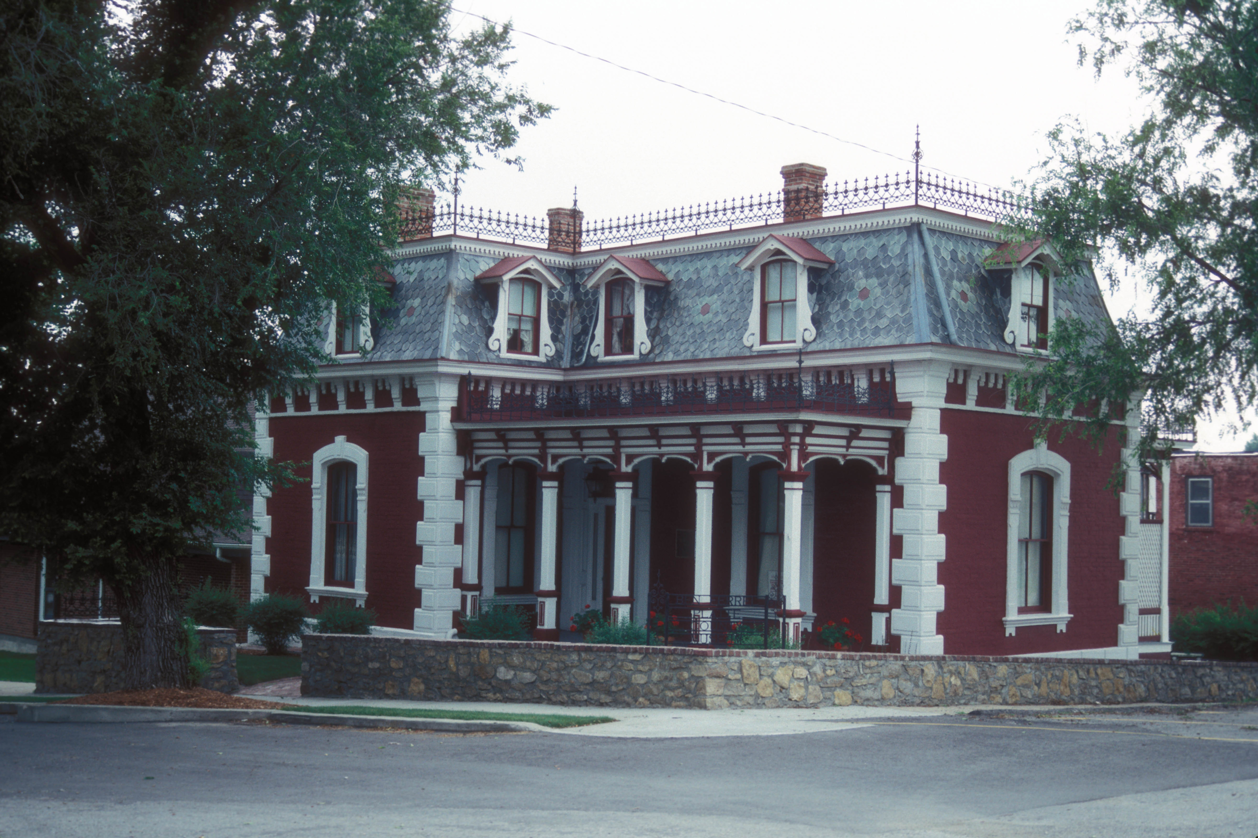 1883 SECOND EMPIRE HOME OF KRAUSE WHO WAS A CLOSE FRIEND OF MISSOURI GOVERNOR SILAS WOODSON OF ST. JOSEPH. WOODSEN SENT HIM TO PRUSSIA AS MISSOURI’S REPRESENTATIVE TO THE 1879 WORLD’S FAIR